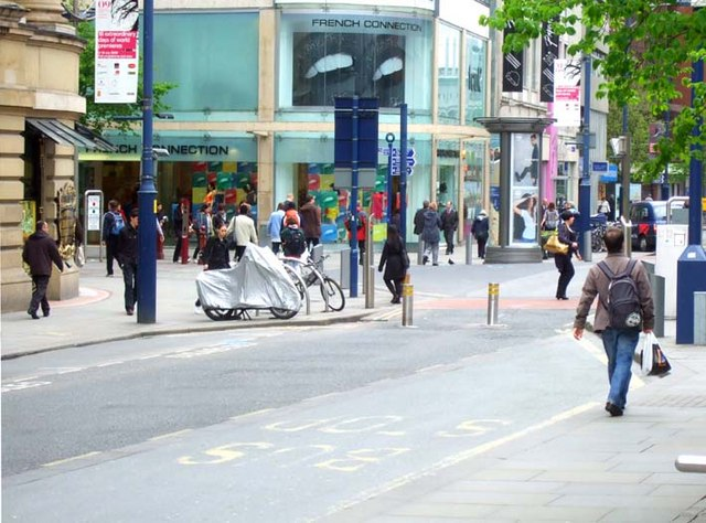 Those infamous Manchester Bollards Junction of Market Street and St Anne's Square on St Mary's Gate. Say no more